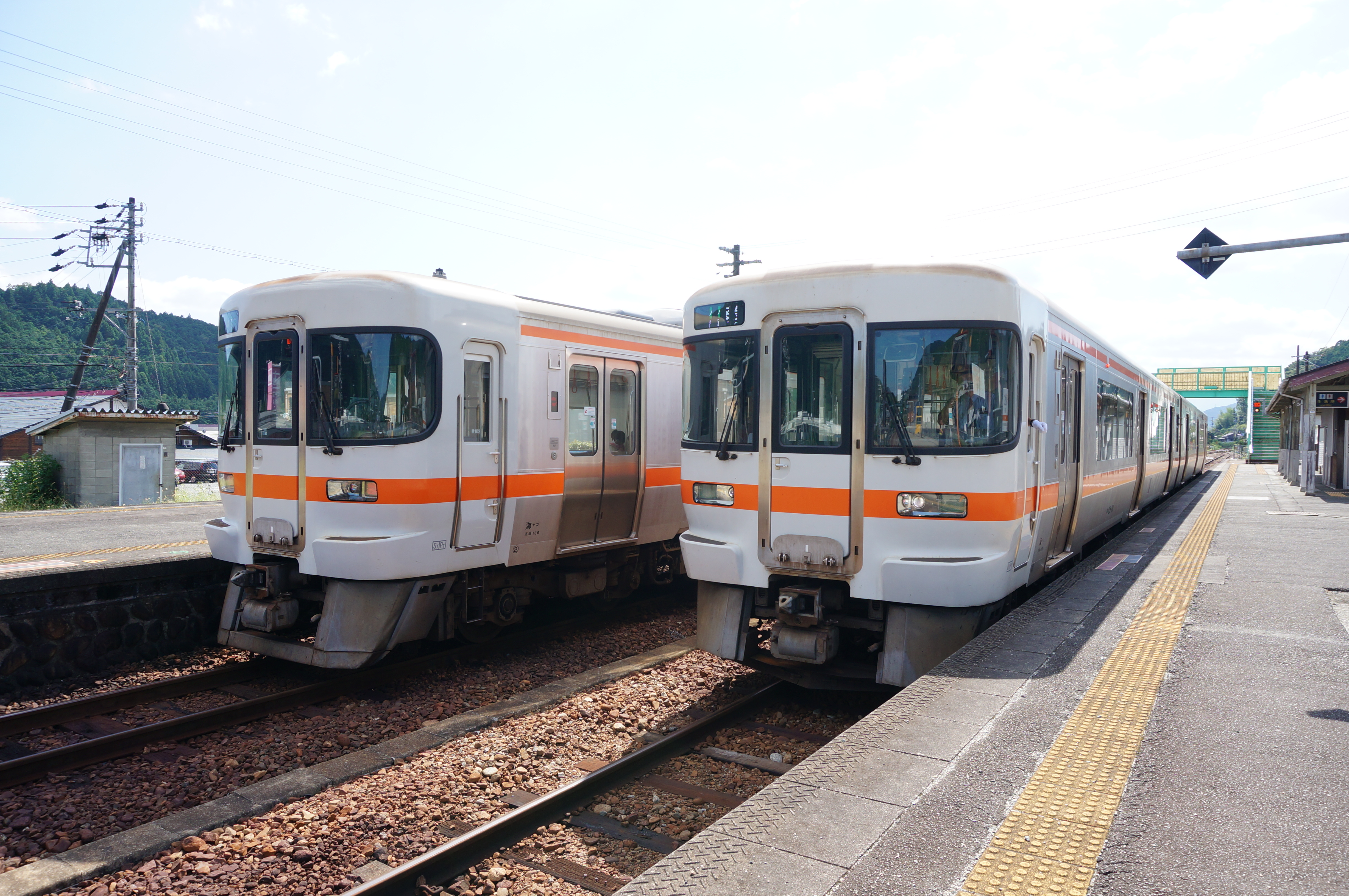 JR Central Kiha 25 at Misedani Station